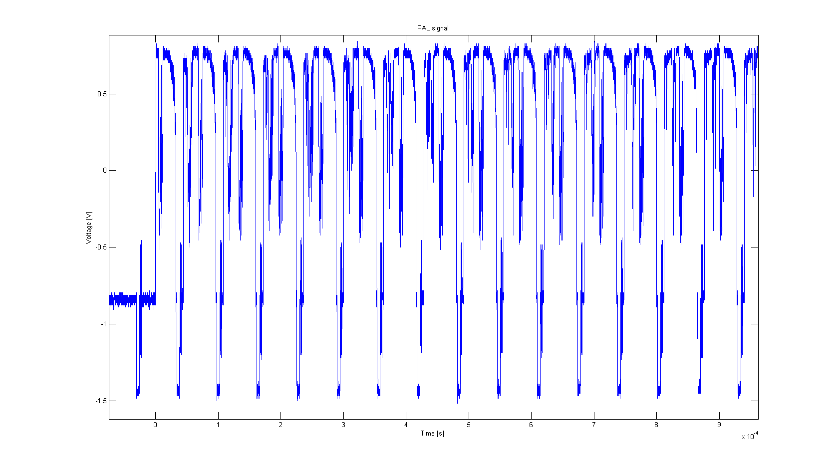 Oscilogram of PAL signal - several lines.